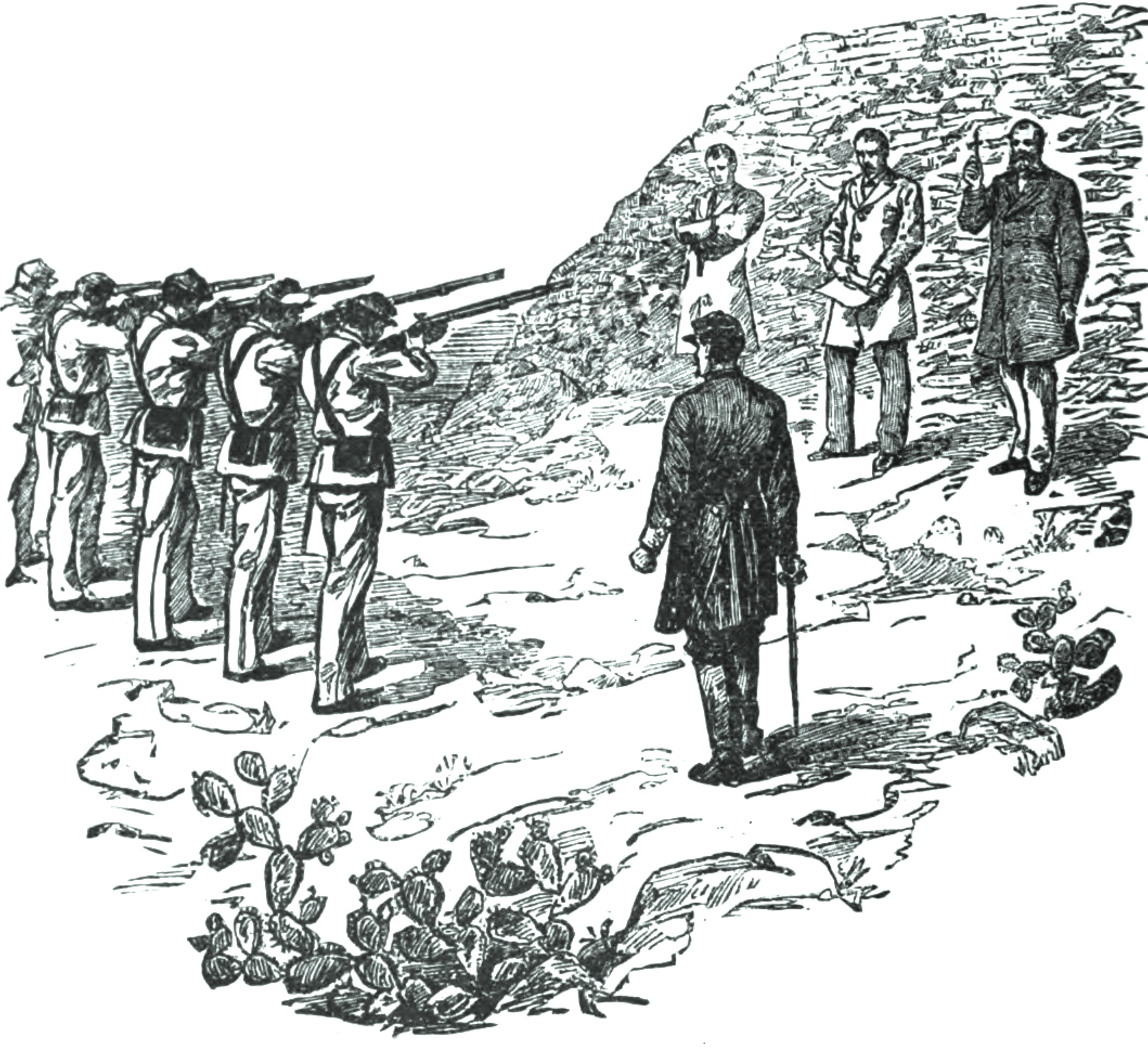 The image caption is the same image caption in the book, "Young Folks History Of Mexico"